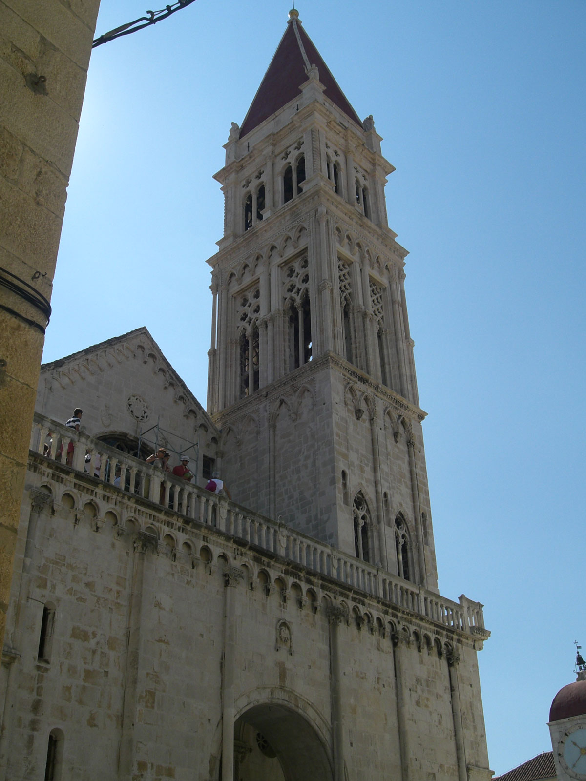 Trogir - cathedral